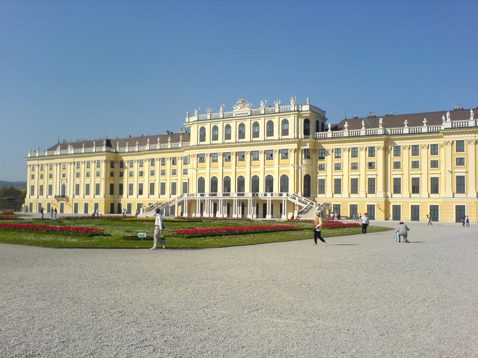 Austria, Vienna, Schönbrunn Palace